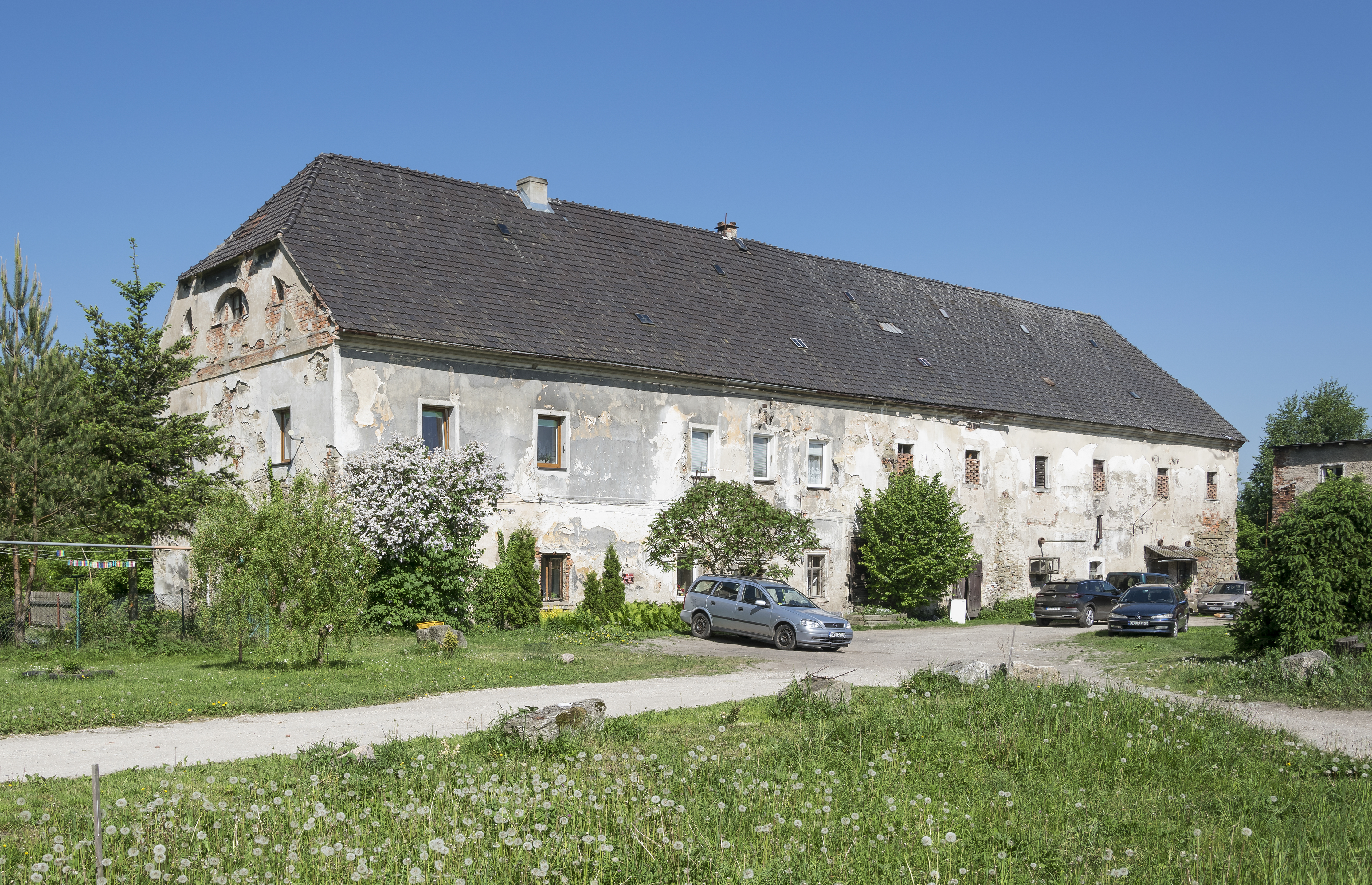 Manor in Roztoki